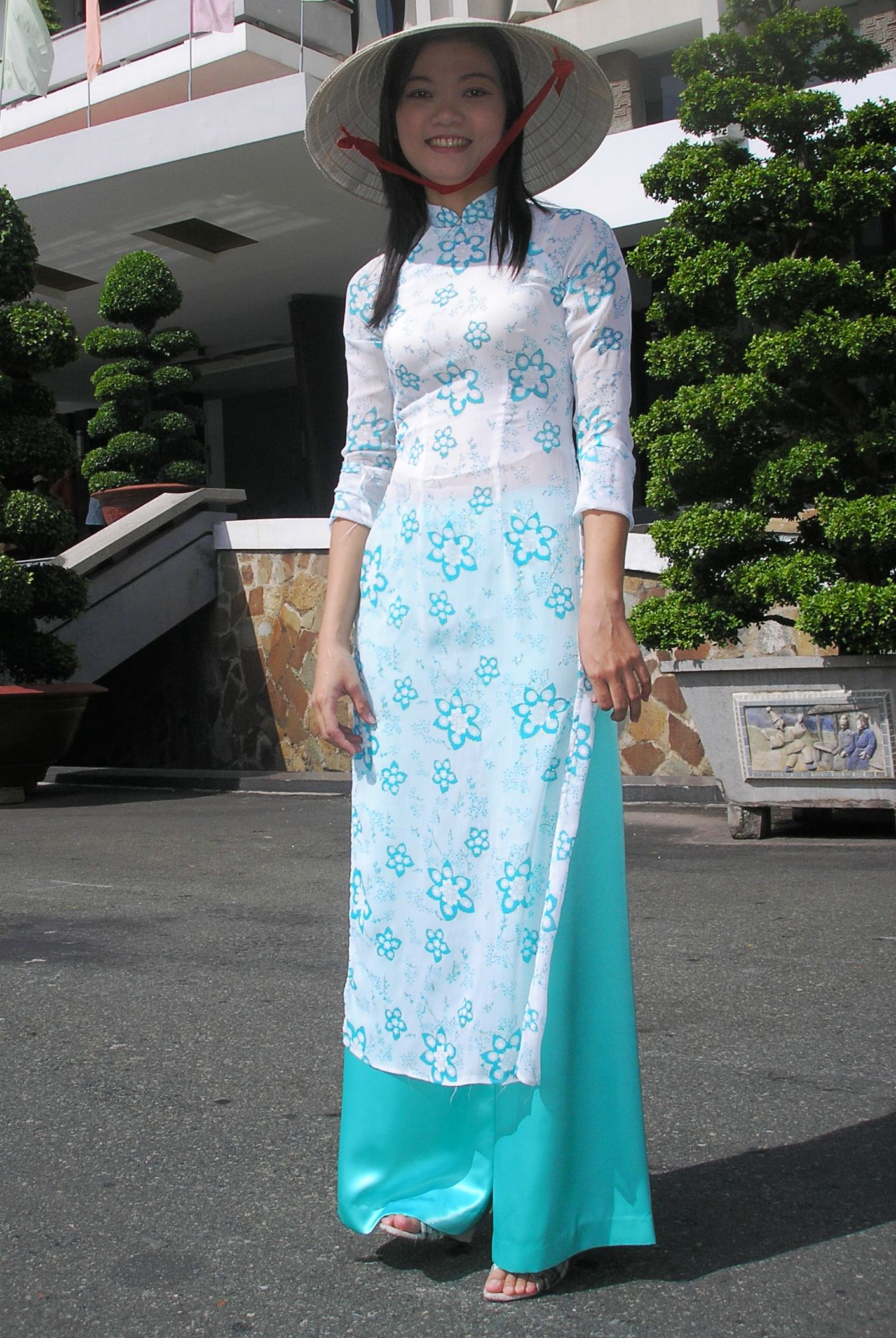 A woman in aodai and non la in front of Dinh Độc Lập, the former South Vietnamese presidential palace in Saigon